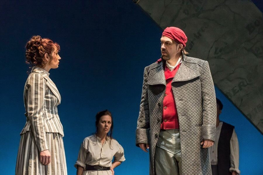 Scene from Lorenzo Ferrero's opera Charlotte Corday, a production of the Mittelsächsisches Theater, April 2013